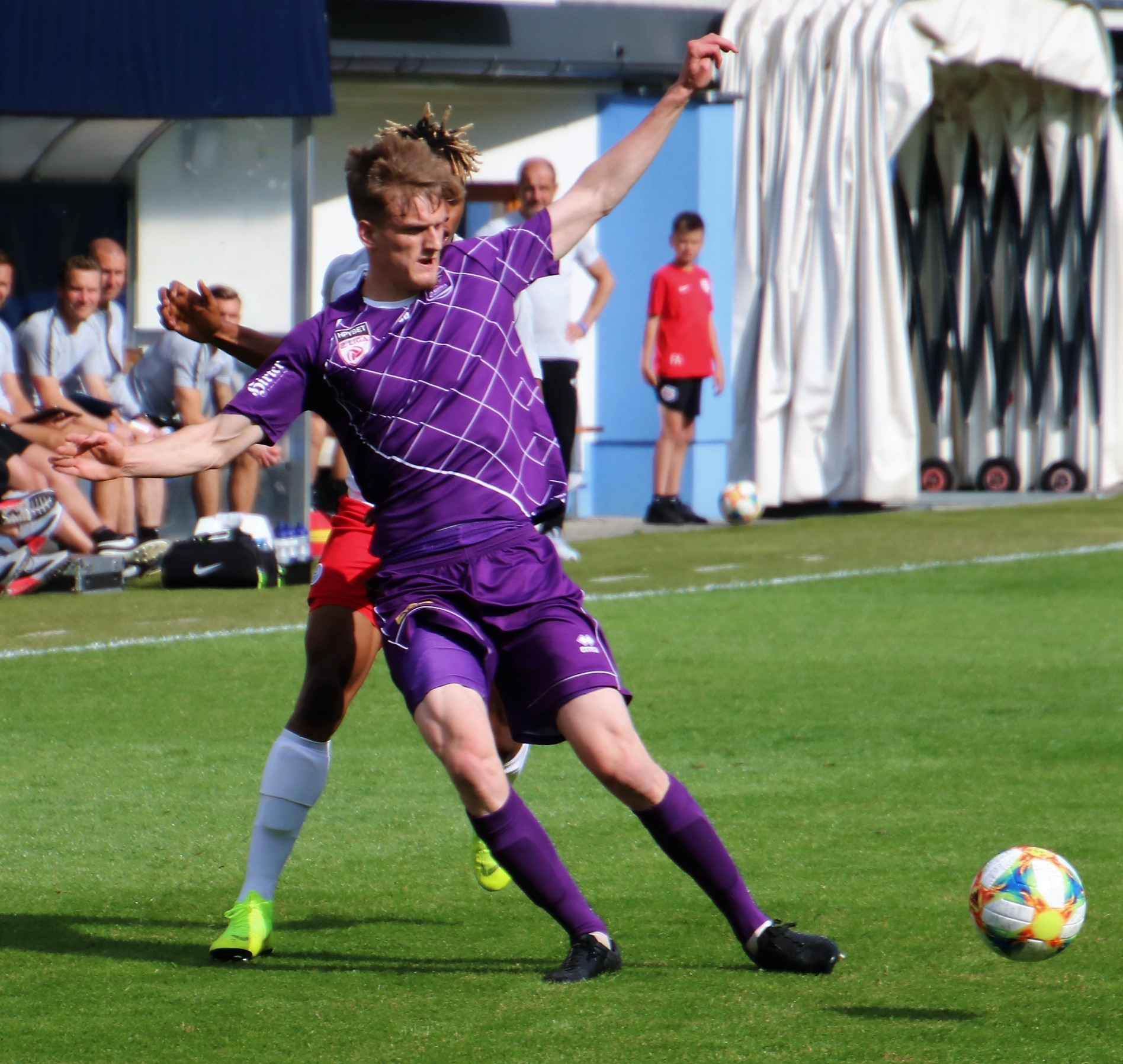 league match Austria 2nd league